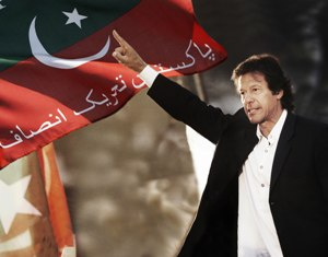 Picture of imran khan infront of the flag of Pakistan Tehreek-e-Insaf. It has been taken by the Administration of who have allowed to use it.